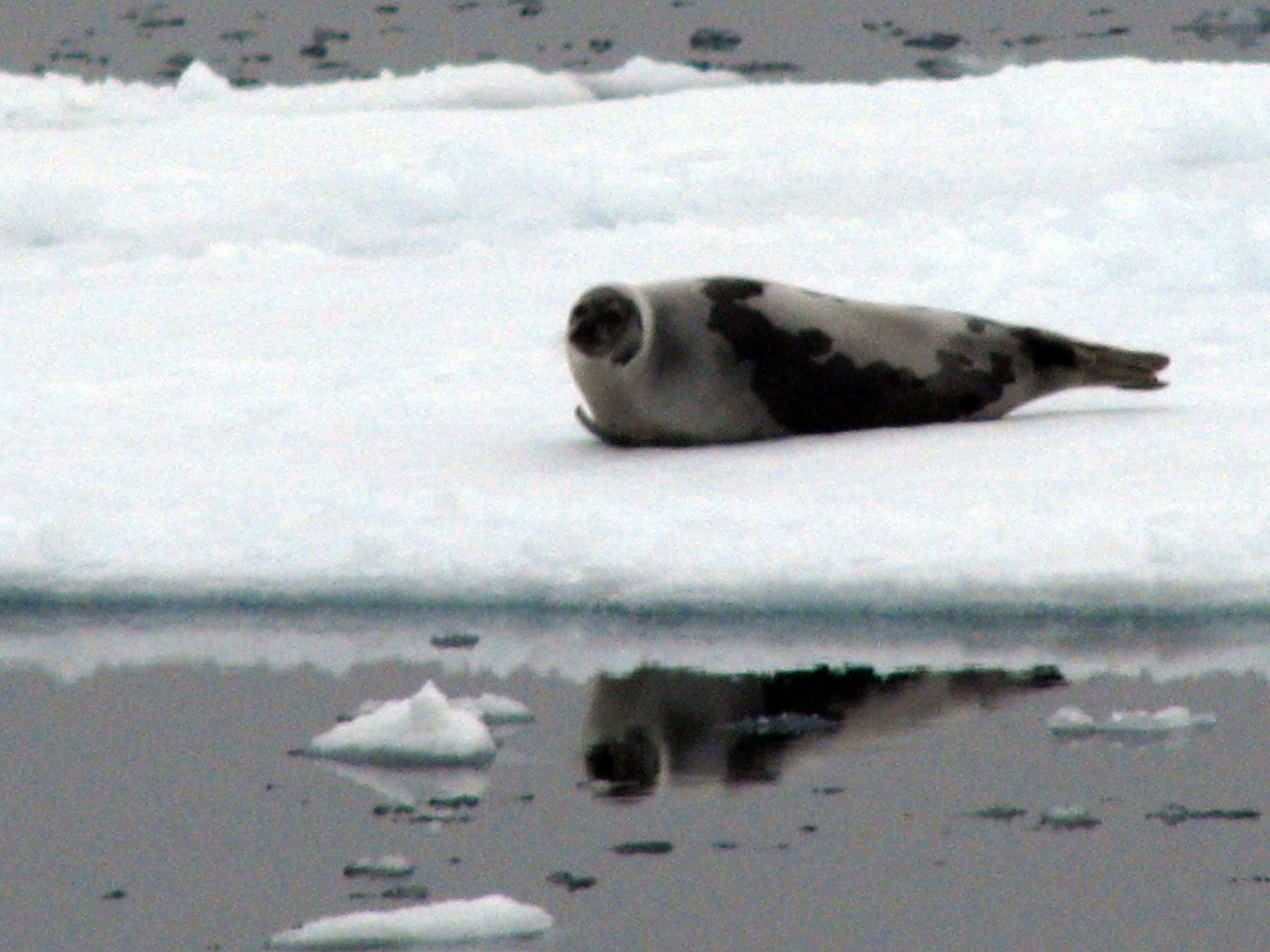 Harp seal on ice floe